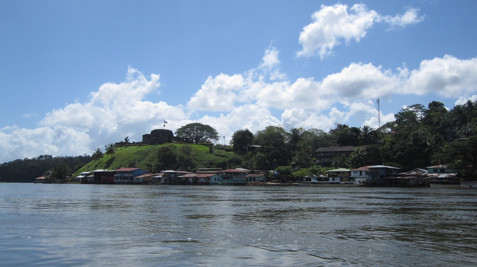 Village of El Castillo on the south bank of the Río San Juan, Nicaragua.